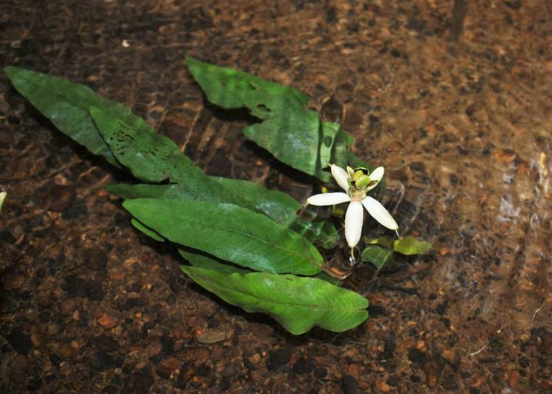 Barclaya longifolia in Thailand (25 Aug. 2010). Credit: R. Pooma.